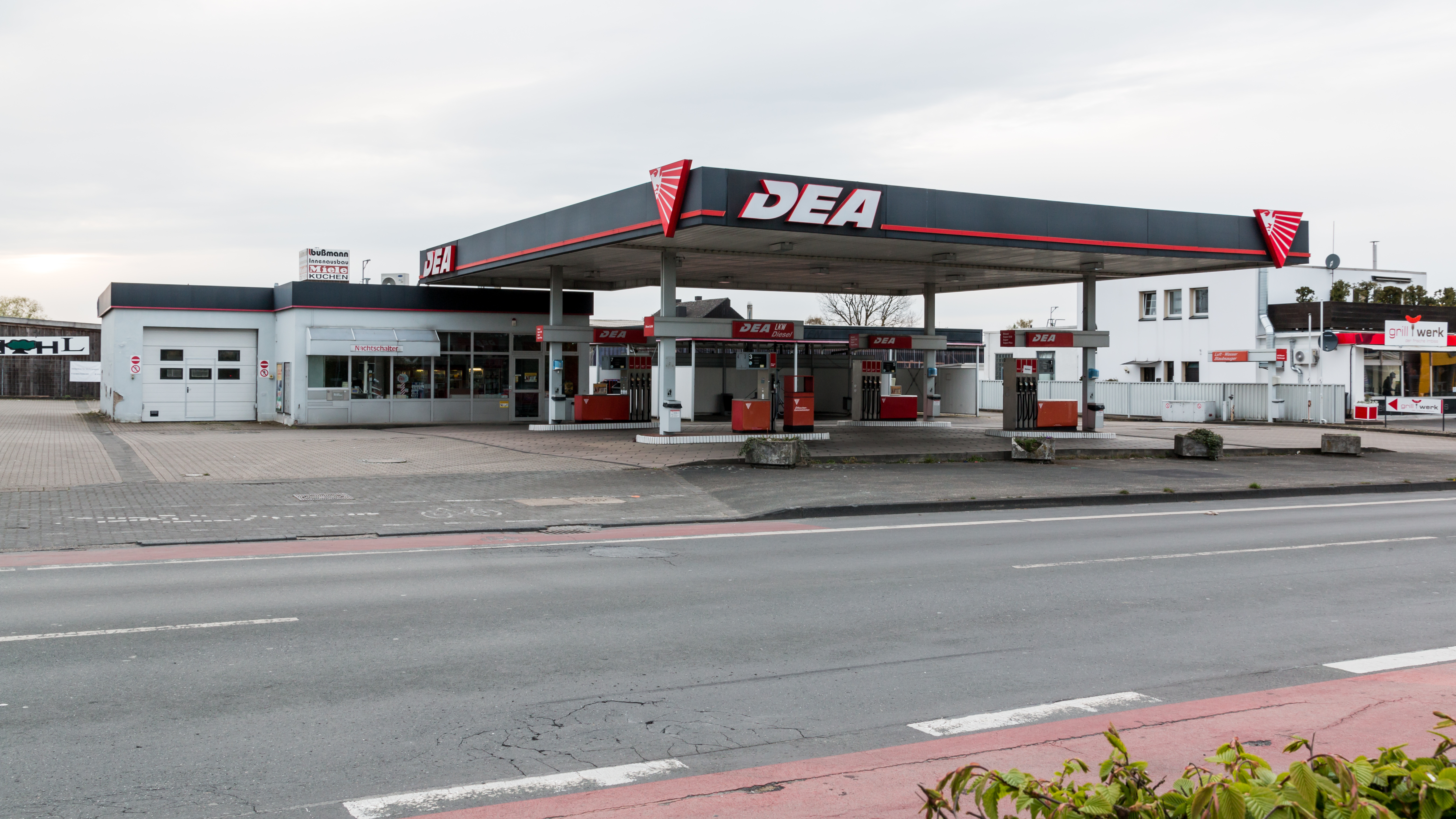 DEA petrol station in Haltern am See, North Rhine-Westphalia, Germany